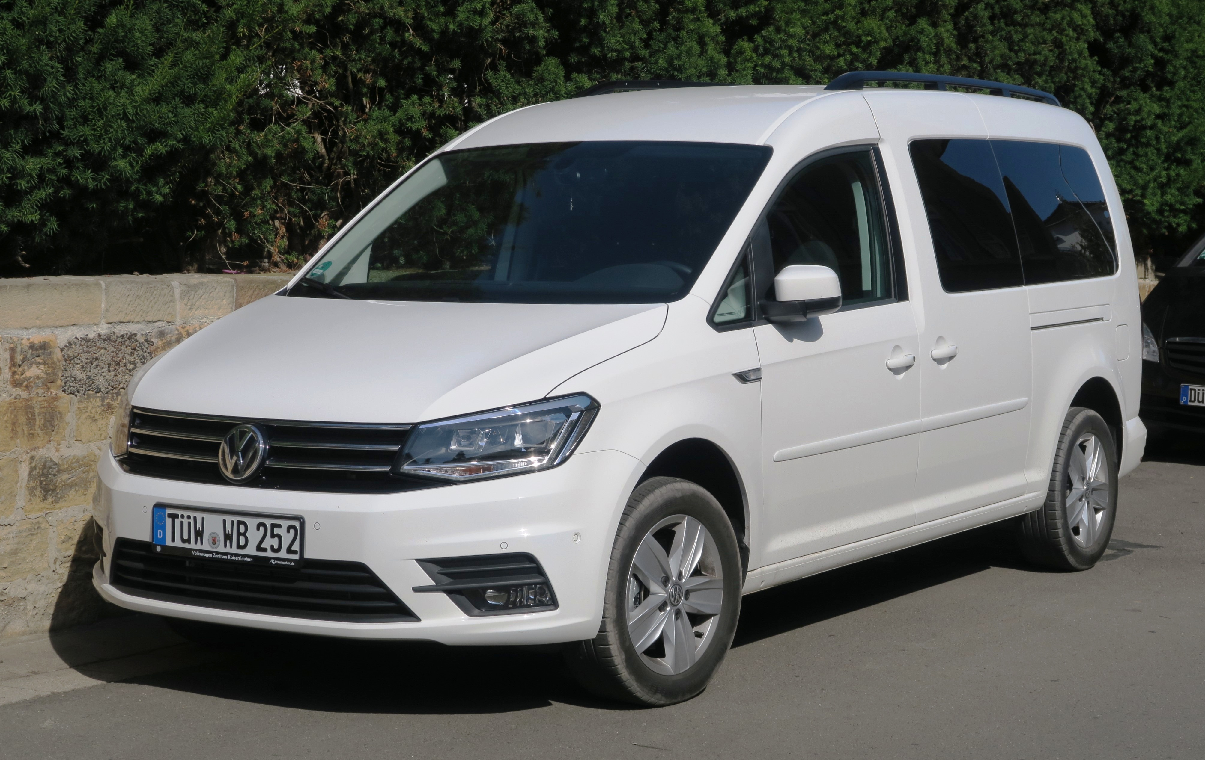 Volkswagen Caddy Maxi postfacelift